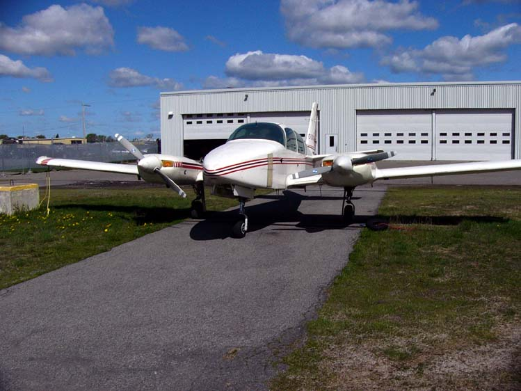 A Gulfstream American GA-7 Cougar at the Les Cedres Airport may 2005